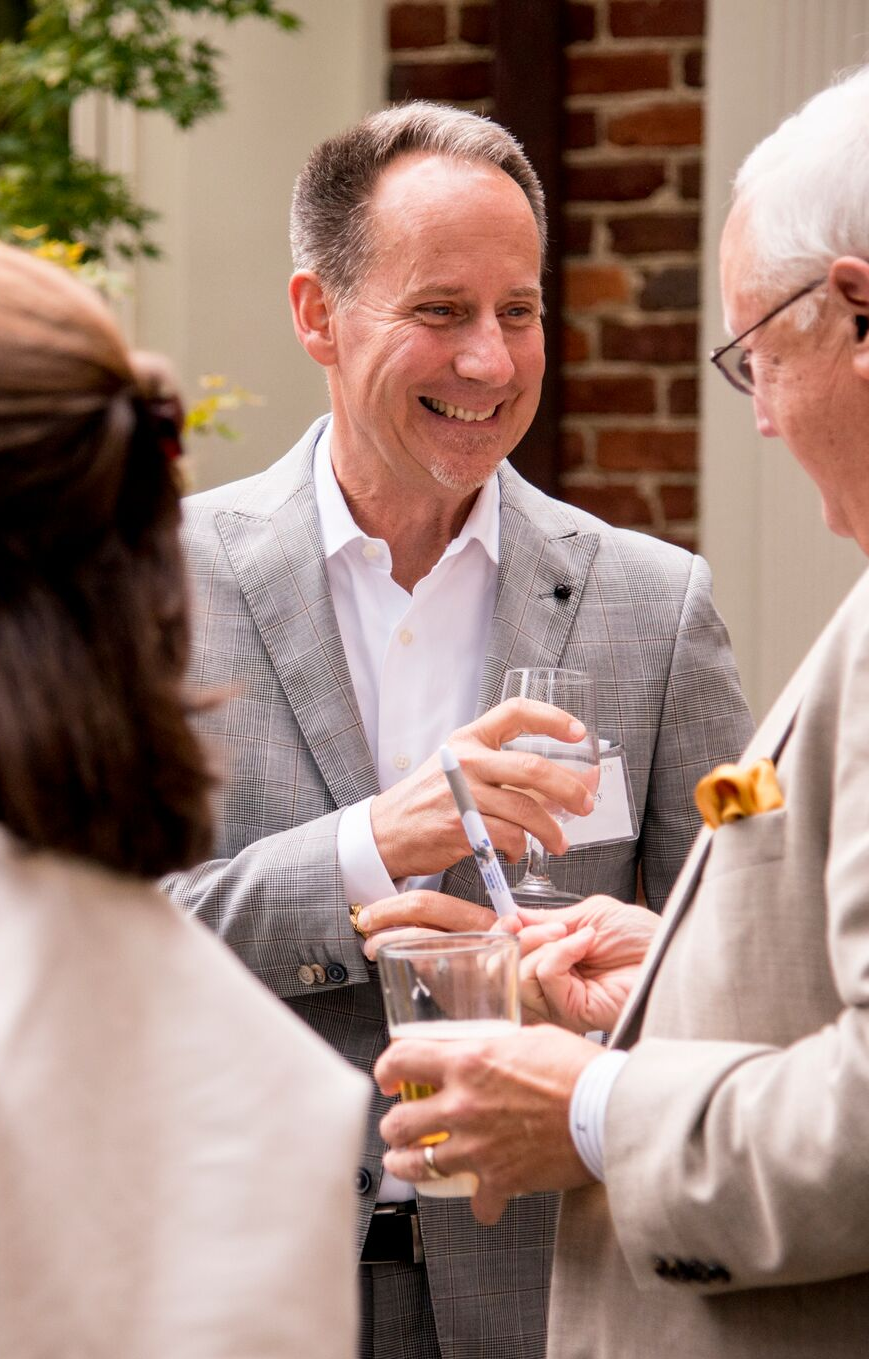 Shawn Brixey, dean of Virginia Commonwealth University School of the Arts, at a 2017 community arts event in Richmond, Virginia.